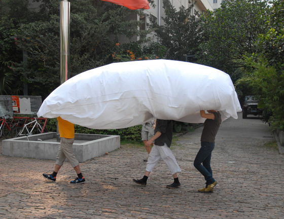 Image shows Yang Zhifei's performance in Beijing October 2009.